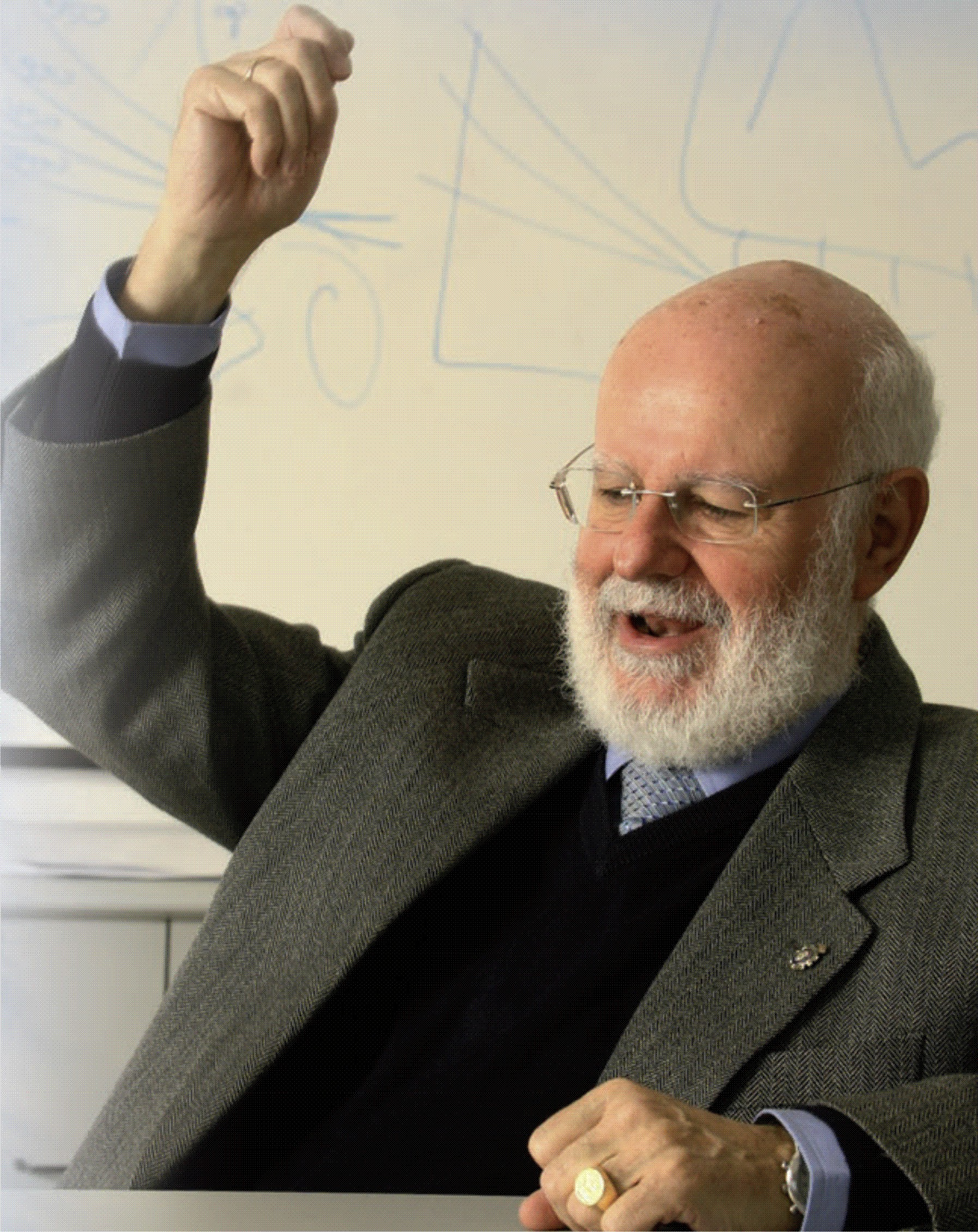 Picture of Antonio Luque taken at Instituto de Energía Solar (Madrid, Spain) during a technical meeting